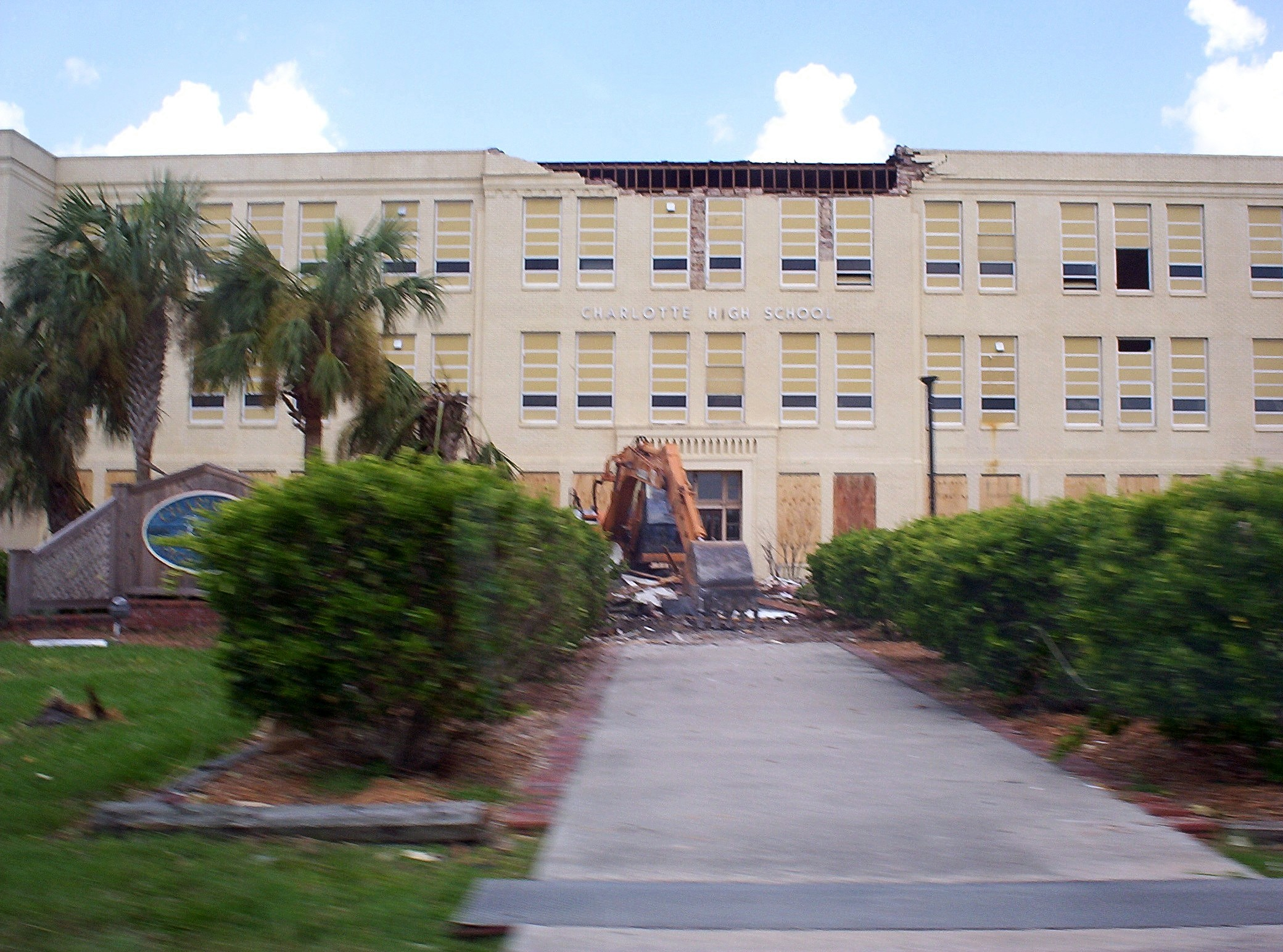 Charlotte High School in Punta Gorda, Florida.